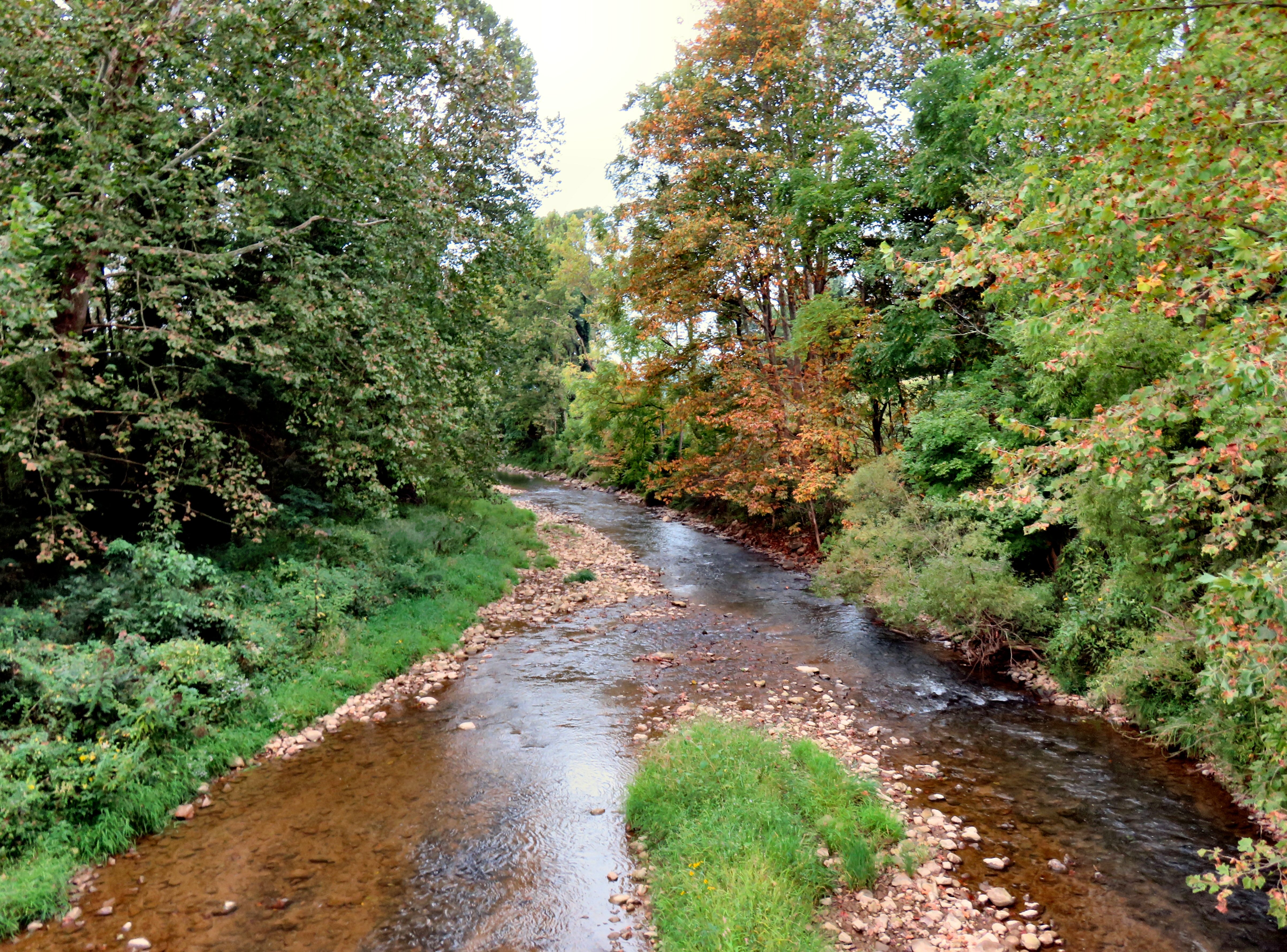 Roan Creek, viewed from the Crackers Nest Road bridge, in the Maymead community of Johnson County, Tennessee, United States.